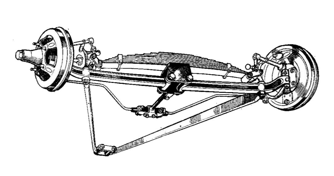 Ballamy swing axle front suspension conversion (Autocar Handbook, 13th ed, 1935).jpg